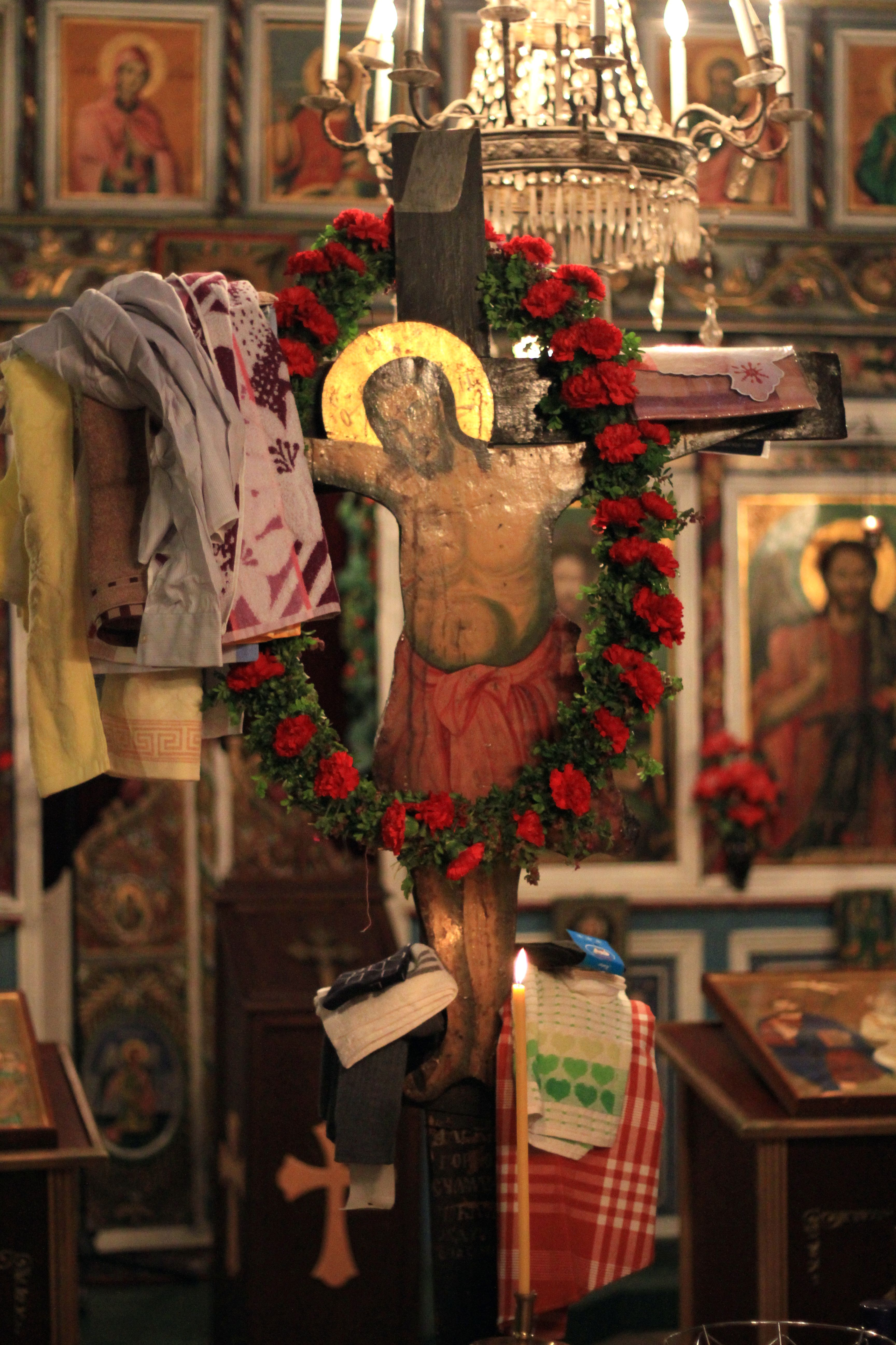 Ortodox church in Bulgaria. Jesus Christ of the crucifixion before being cast out on Good Friday, Easter. This photo has been taken in the country: Bulgaria